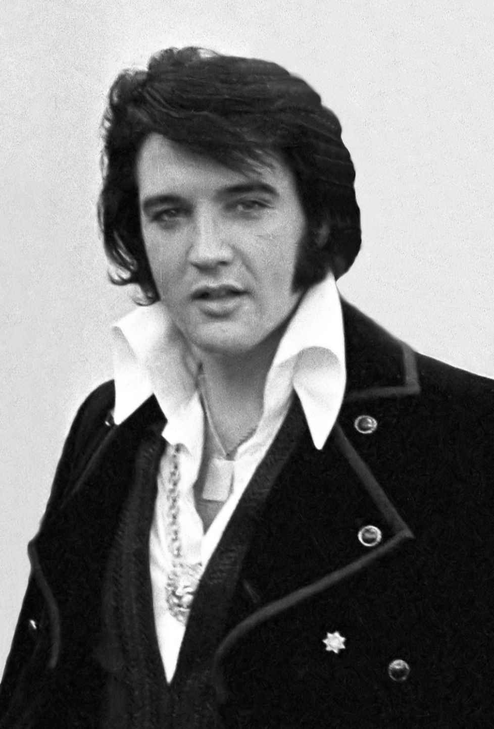 A cropped and retouched picture, showing a headshot of Elvis Presley.